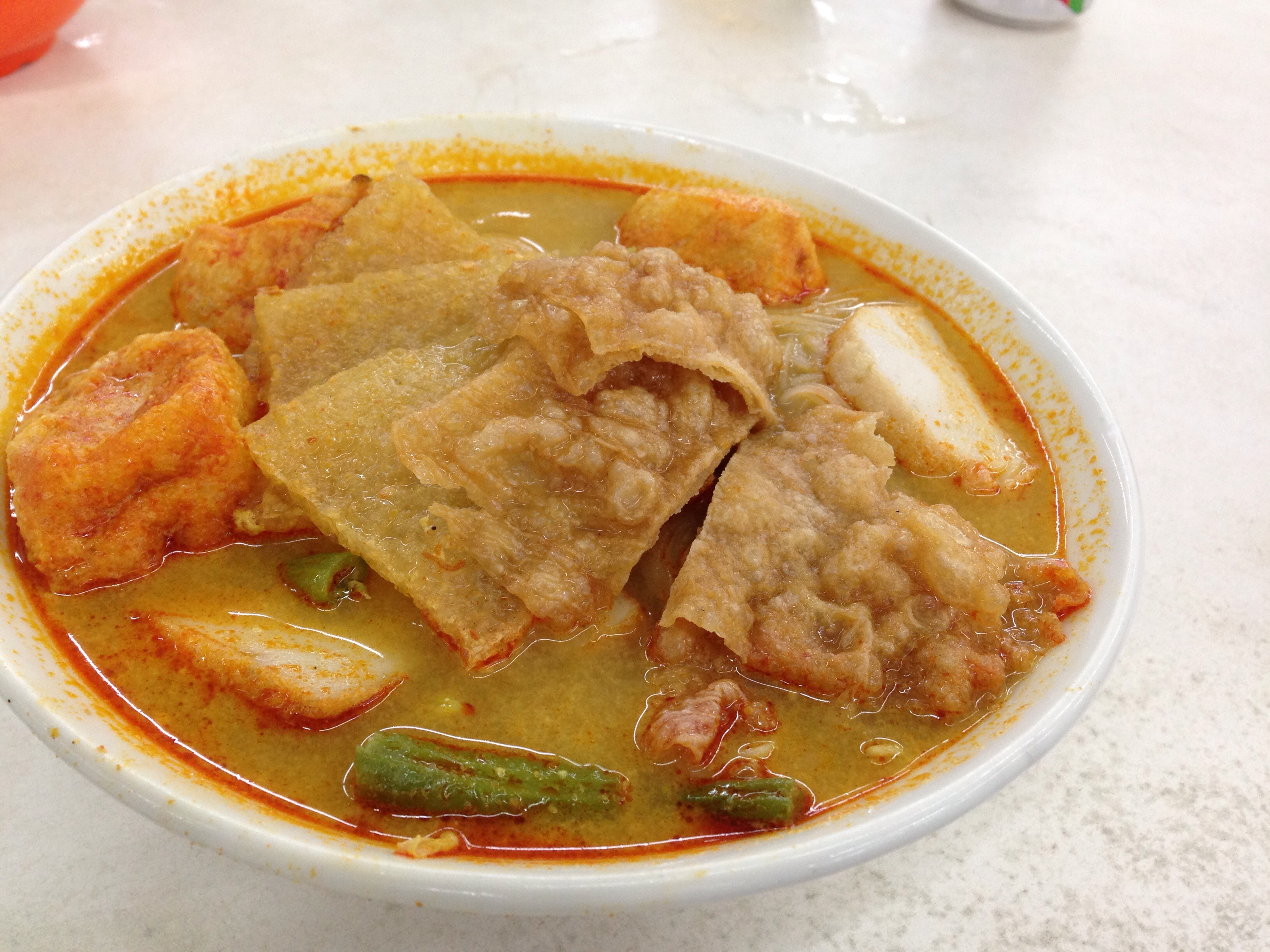 Curry Mee in KL.